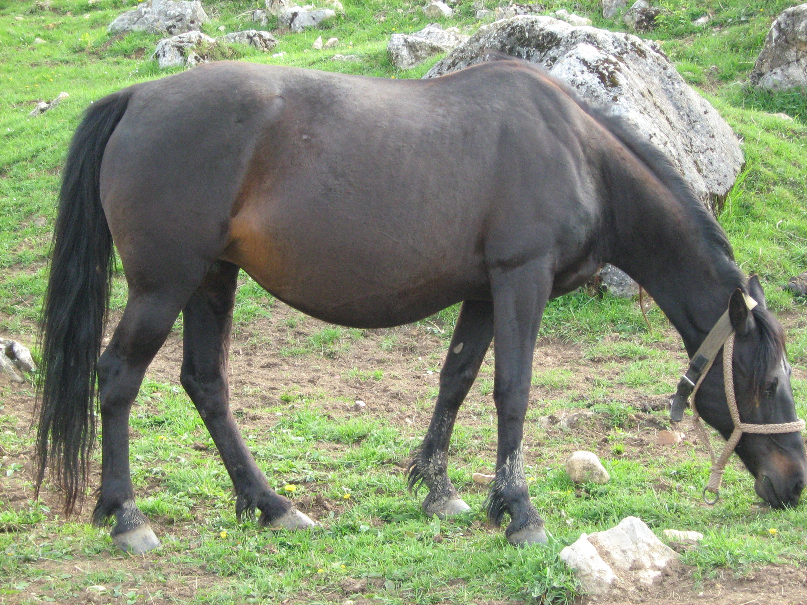 Bosnan Pony